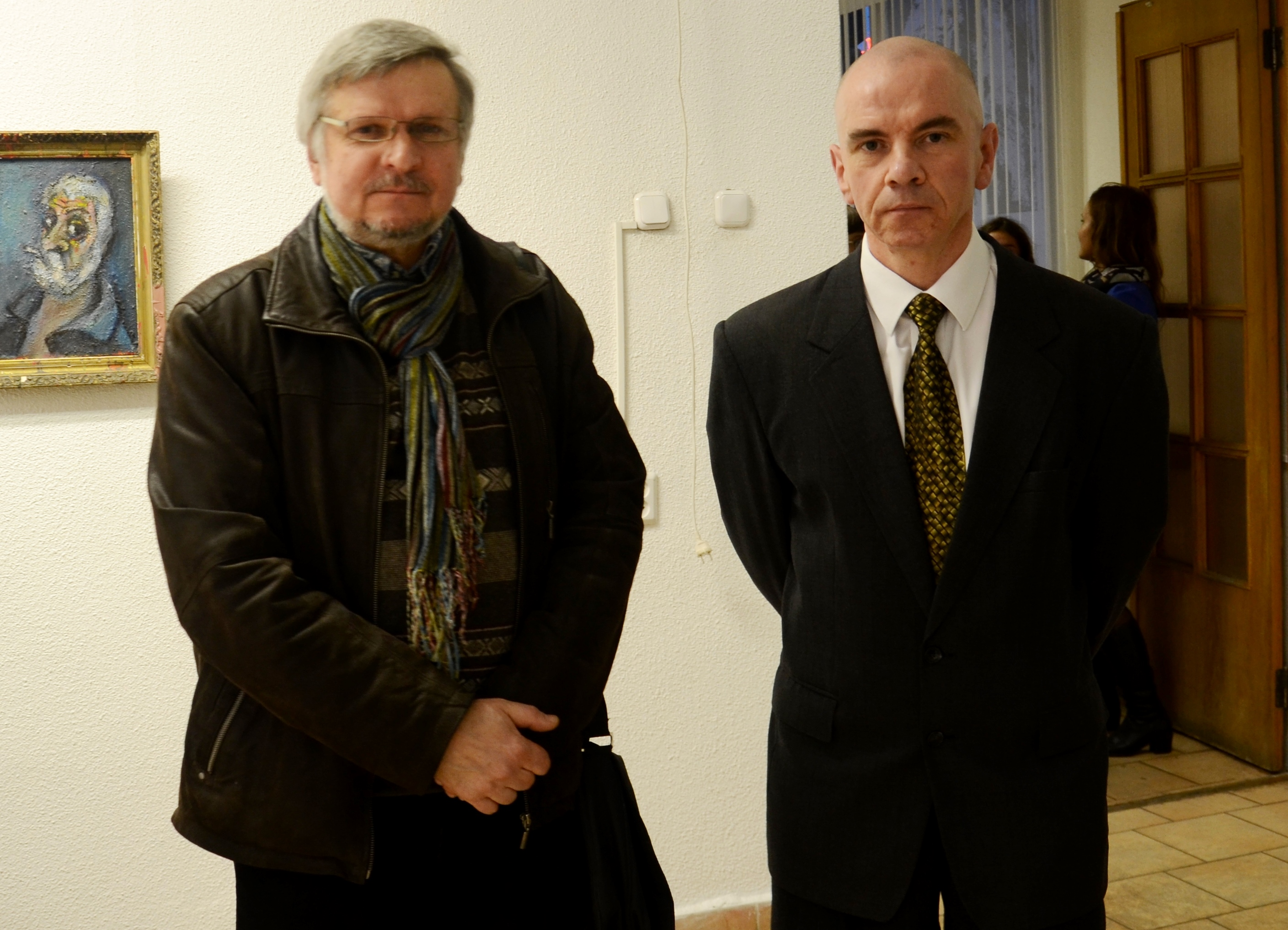 Belarusian photographers Sergey Kozhemyakin and Igor Savchenko. Opening of the «Suma Sumarum» art project. On November 12, 2014 in the Museum of Modern Art, Minsk.